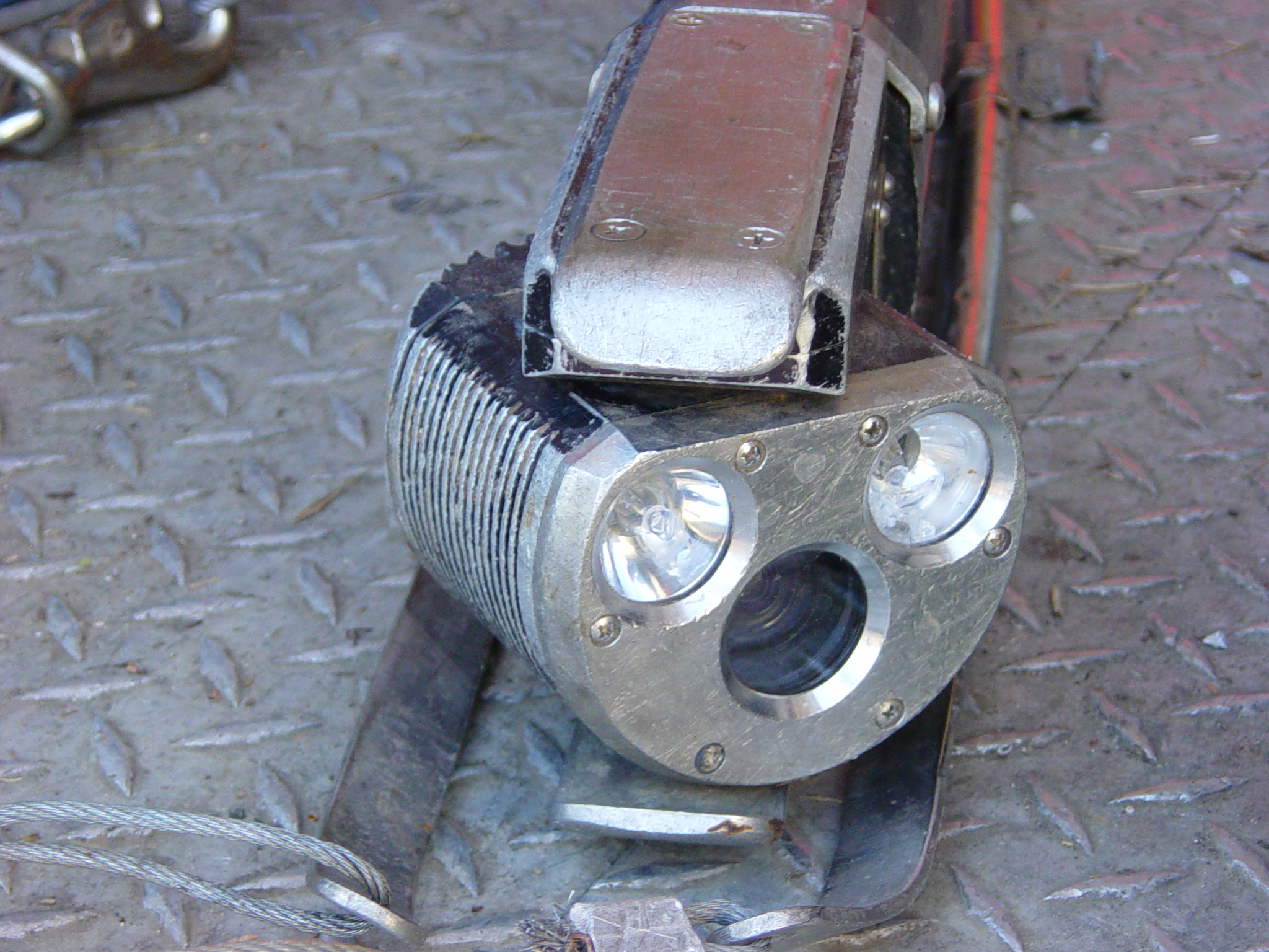 Remotely controlled video inspection head for pipeline inspection showing lights and video camera port. Image by User:Leonard G.